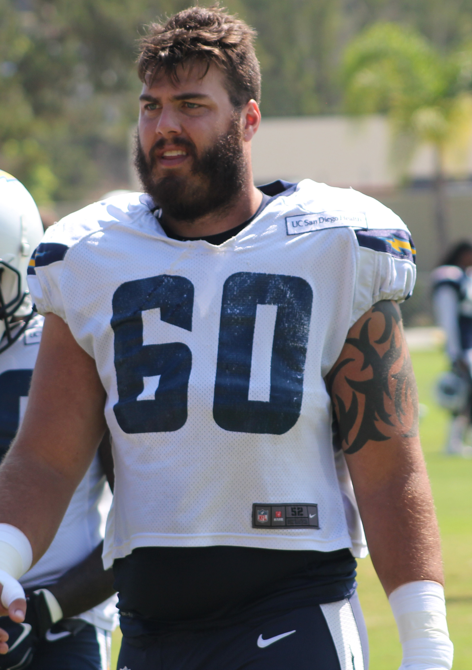 Trevor Robinson at Chargers training camp in 2015.